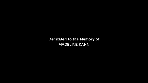 The first line in the credits for the Psych episode "100 Clues", dedicated to Madeline Kahn, who played the role of Mrs. White in the original Clue movie. She died in 1999 of ovarian cancer.